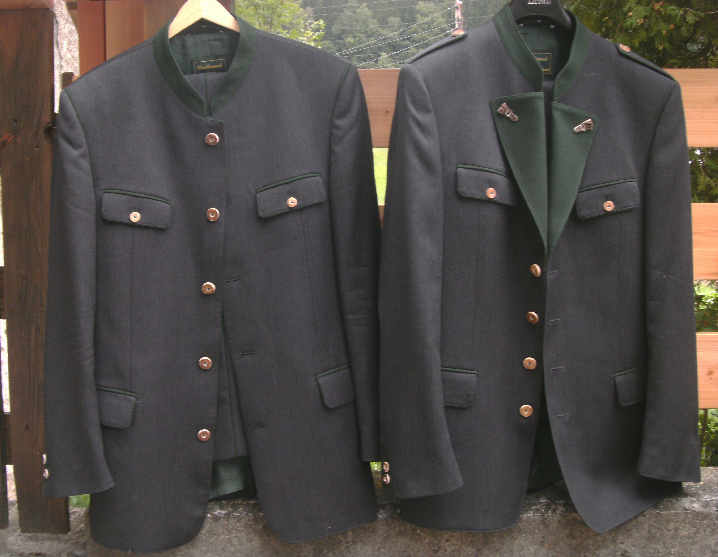 Two types of traditional men's costume from Styria/Austria.